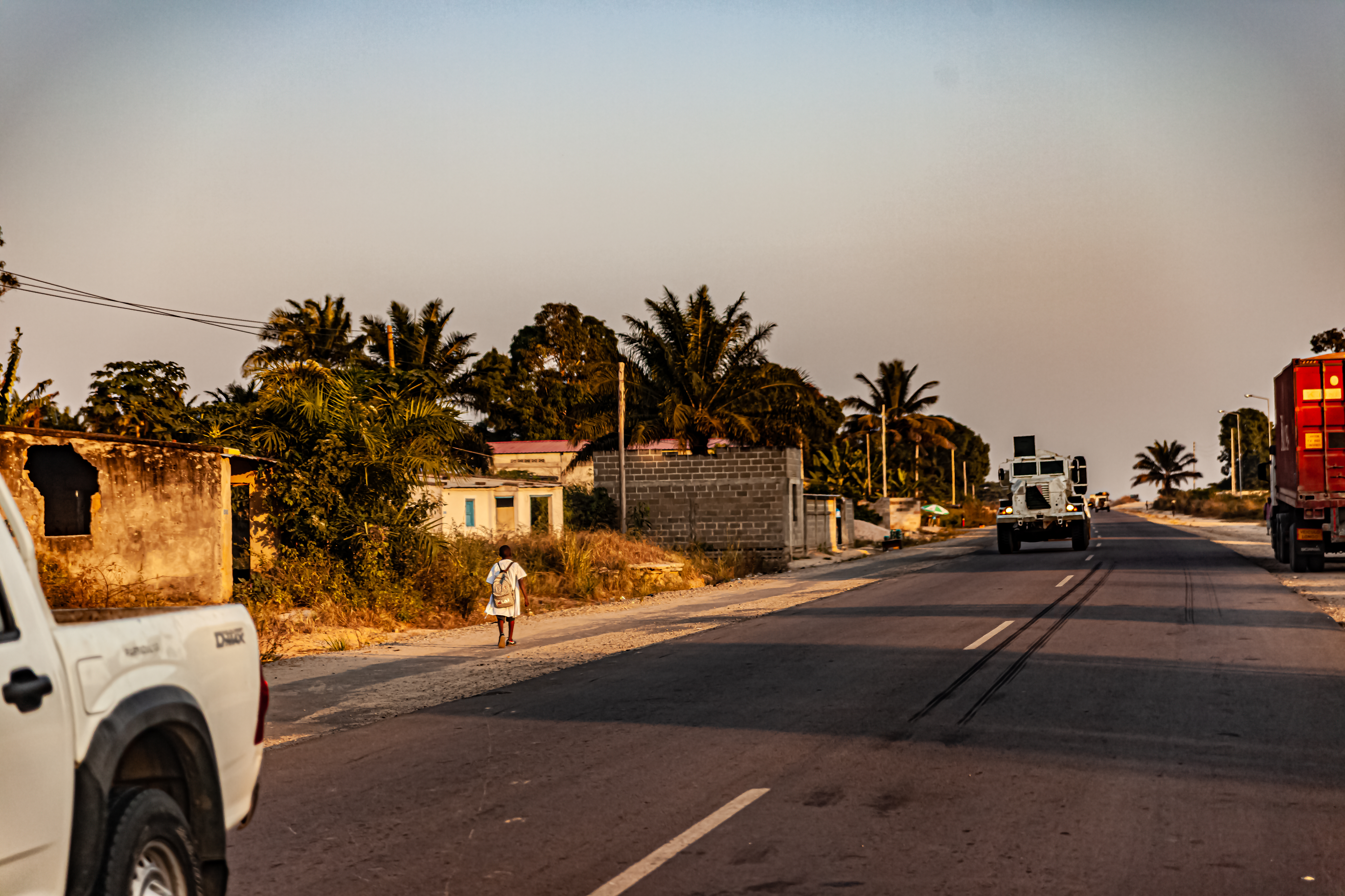 a armor personal vehicle n the move in Angola soyo This is an image with the theme "Africa on the Move or Transport" from: Angola